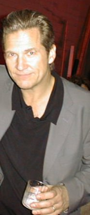 American actor Jeff Bridges, backstage after Yamaha's tribute concert to former Doobie Brother and Steely Dan alumni Michael McDonald in Los Angeles.